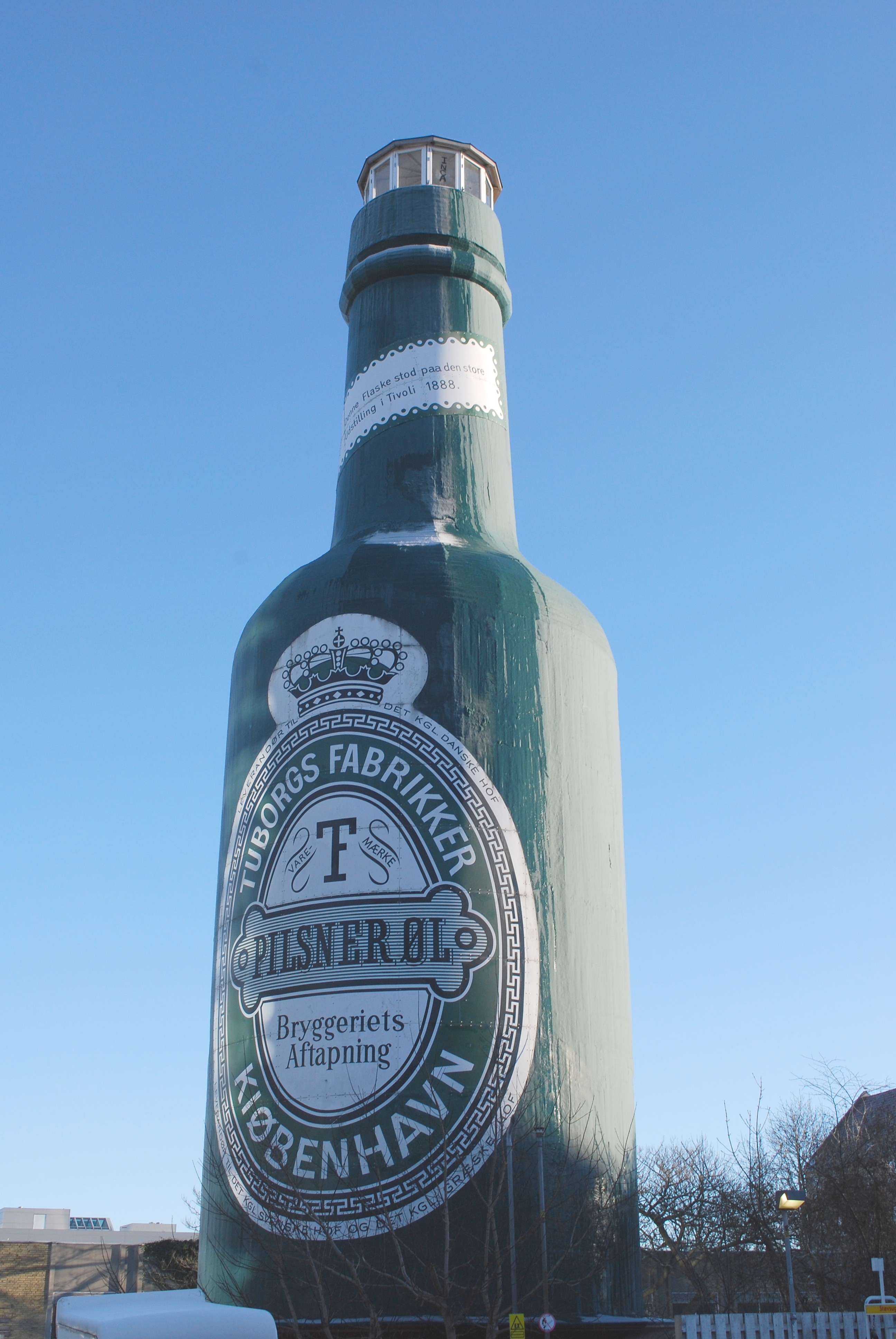 A big bottle, Tuborg, Hellerup, Copenhagen